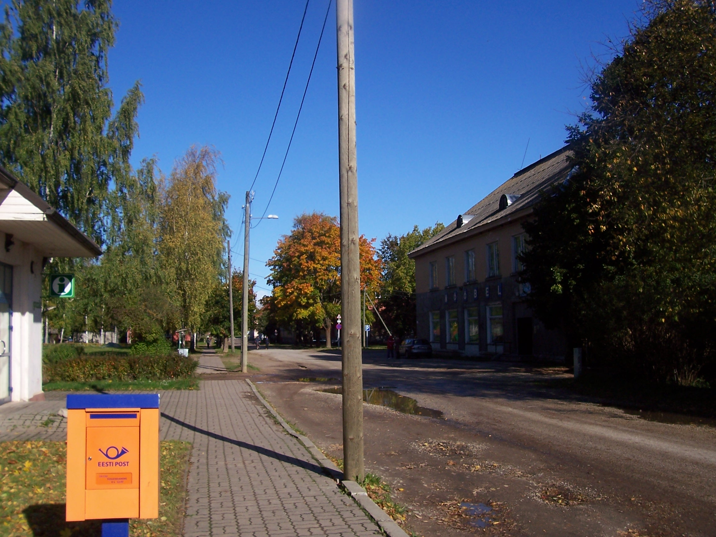 Main street in the city of Kallaste